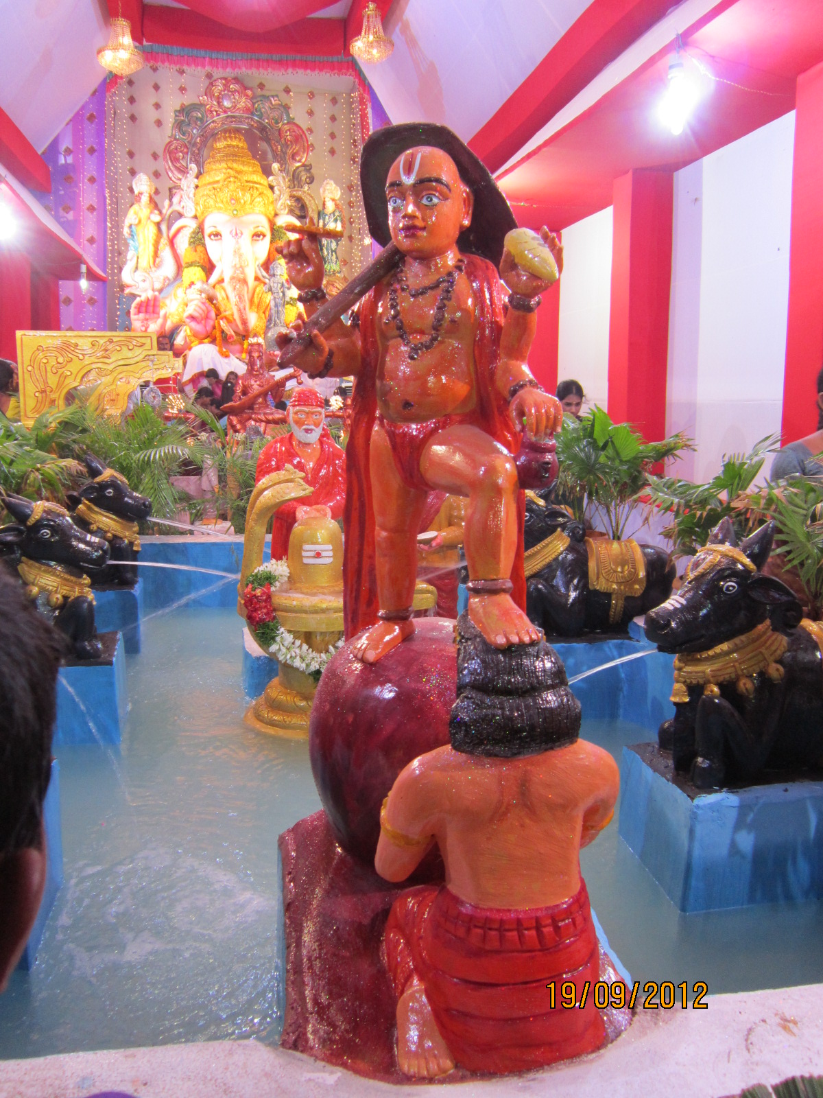 Vamanavataram -on of dasavaram